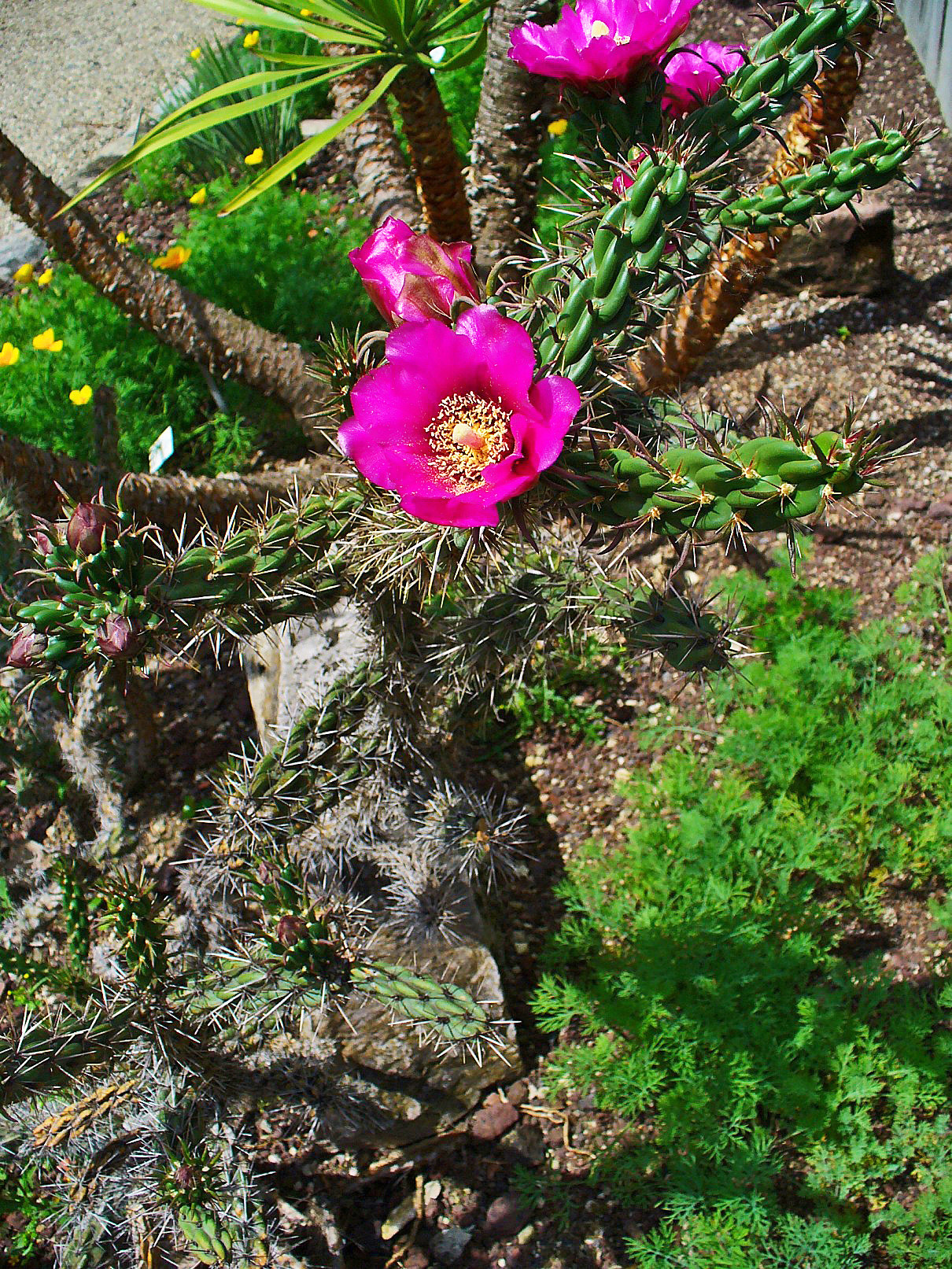 Walking Stick Cholla, Habitus; Botanical Garden KIT, Karlsruhe, Germany.